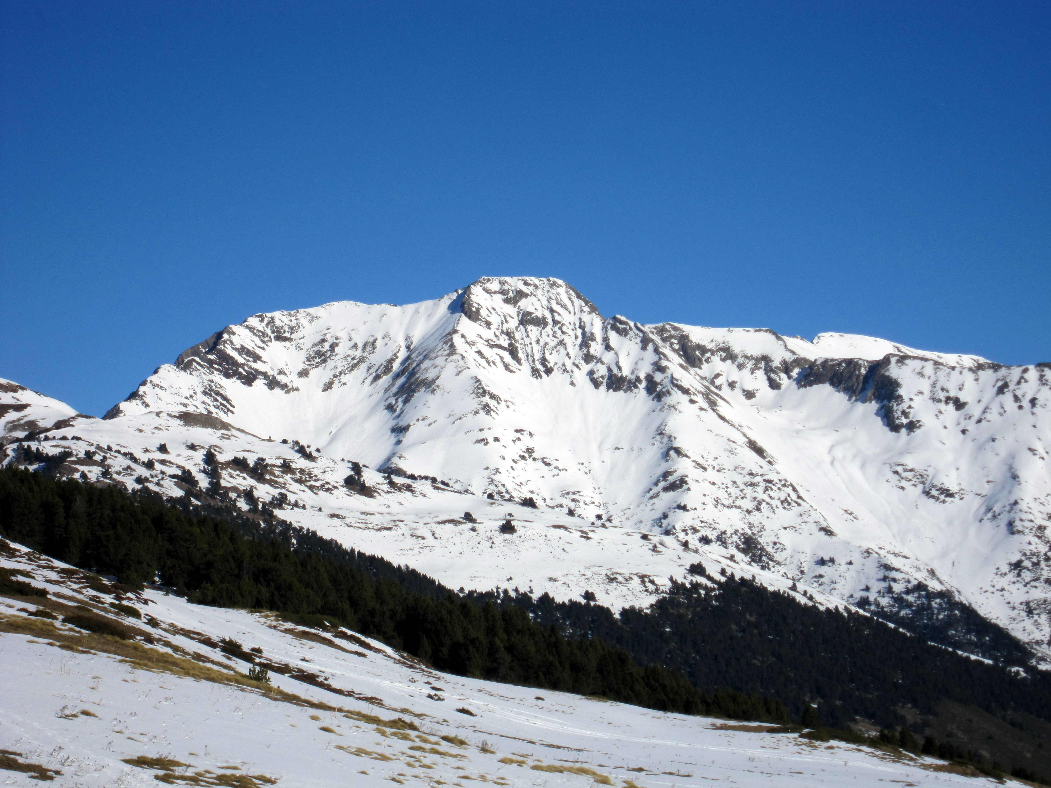 Tuc de Barlonguèra